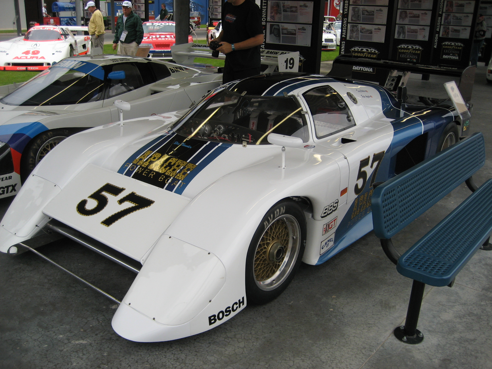 Blue Thunder Racing's Chevrolet-powered March 83G.